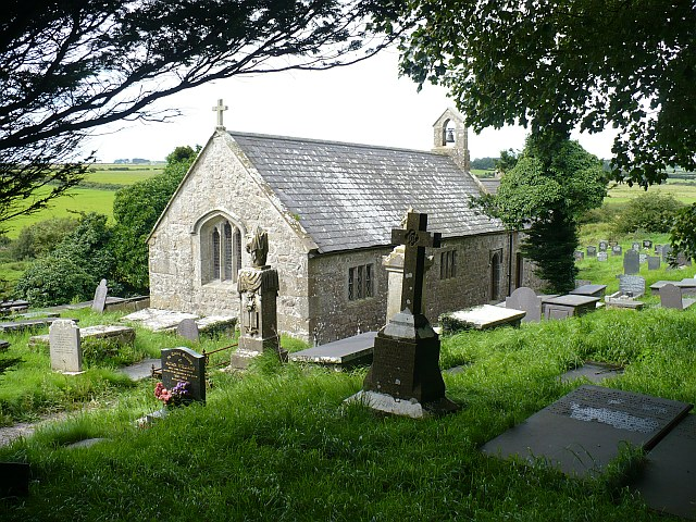 St Cwyllog's Church, Llangwyllog Originally founded in the year 605.